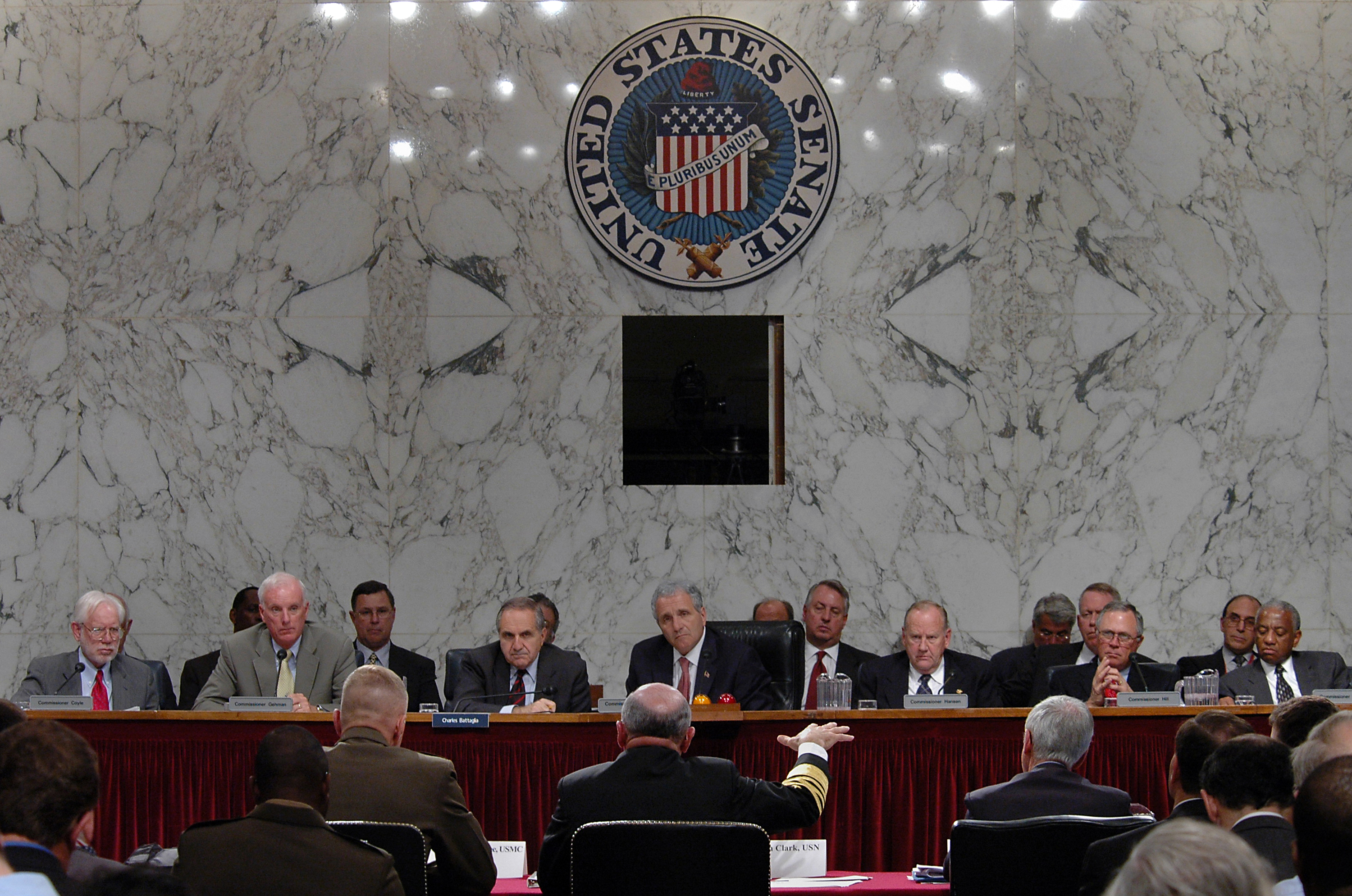 Washington, D.C. (May 17, 2005) - Members of the Defense Base Closure and Realignment Commission (BRAC) question Secretary of the Navy Gordon England, Chief of Naval Operations Adm. Vern Clark, Commandant of the Marine Corps Michael W. Hagee and Deputy Assistant Secretary of the Navy (Infrastructure Analysis) Anne Davis during hearings on the recommended restructuring of the nations defense installations. This was the first time the Navy and Marine Corps leadership appeared before the commission to review the realignment and closures list. U.S. Navy photo by Chief Photographer's Mate Johnny Bivera (RELEASED)